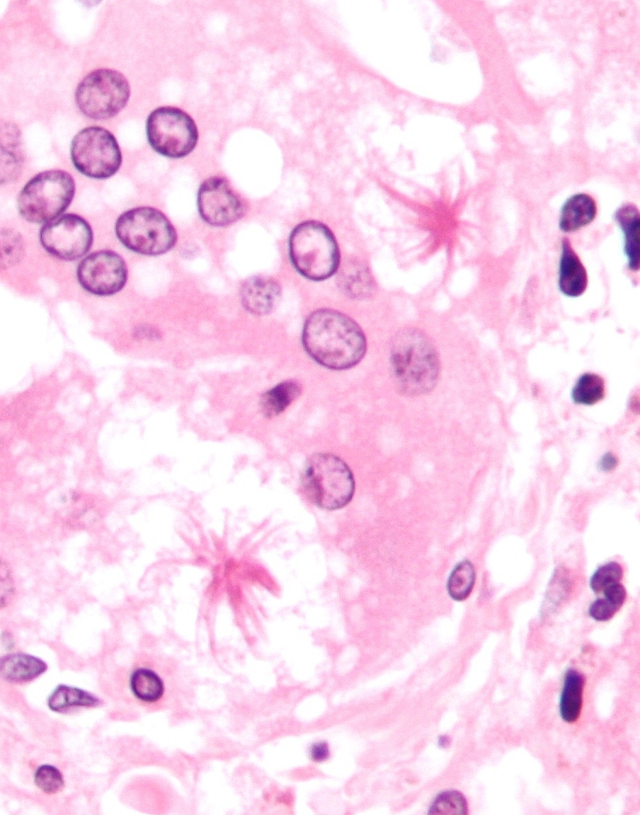 High magnification micrograph of asteroid bodies in pulmonary sarcoidosis. H&E stain. Asteroid bodies are associated with granulomatous inflammation. On a H&E stained section, as seen here, they are light pink, have a star-fish like morphology and surrounded by white (clearing). See also Image:Asteroid body very high mag.jpg - uncropped version of this image. Image:Asteroid body intermed mag.jpg - lower magnification.